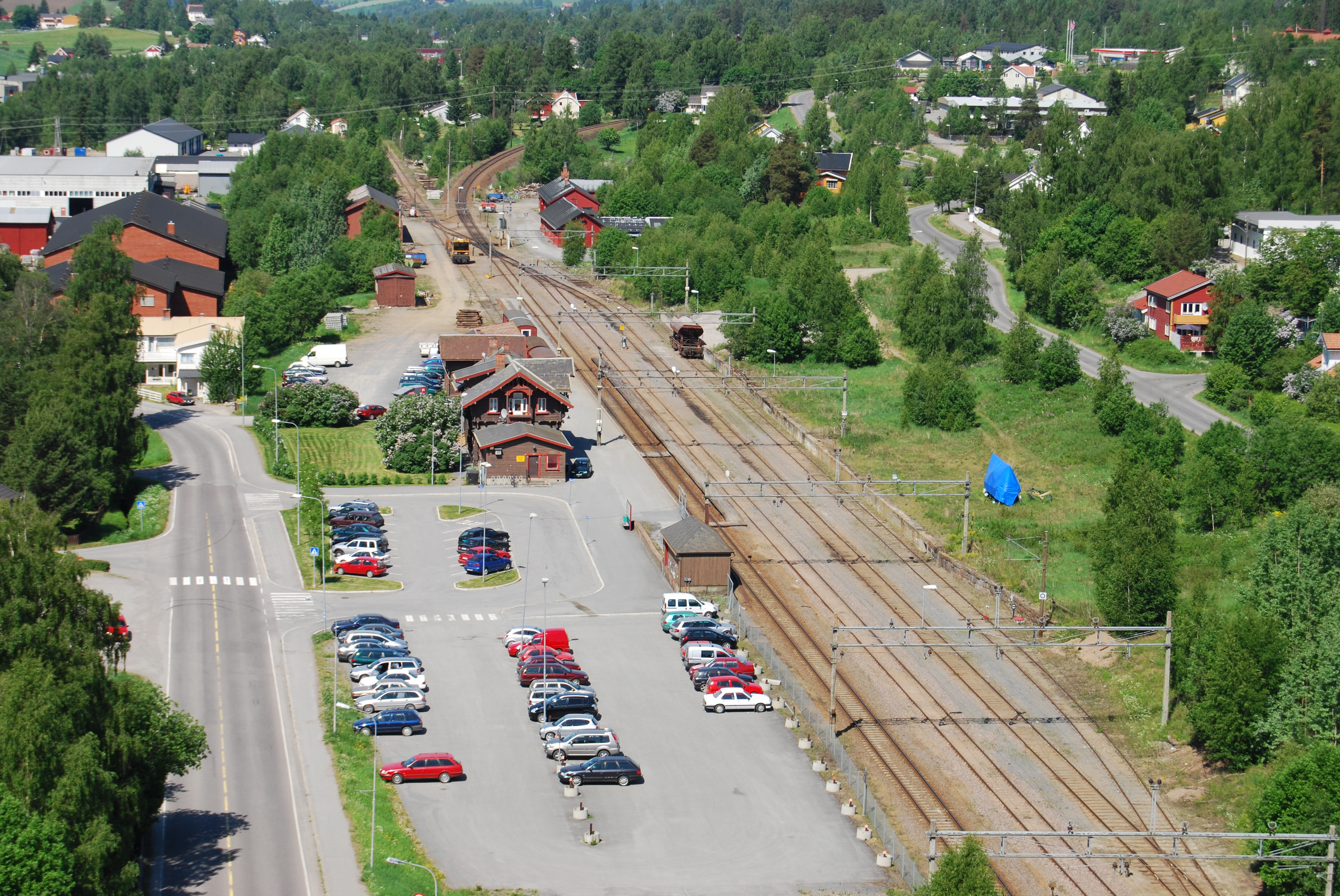 Jaren train station, Gran, Norway